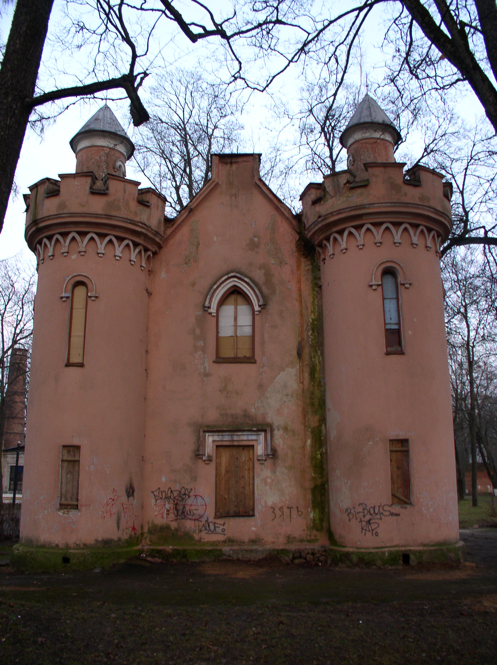 Library. Manor of Czapski family. Stankava, Belarus.